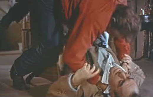 Cropped screenshot of James Dean and Jim Backus in the trailer for the film Rebel Without a Cause. Dean can be seen wearing engineer boots